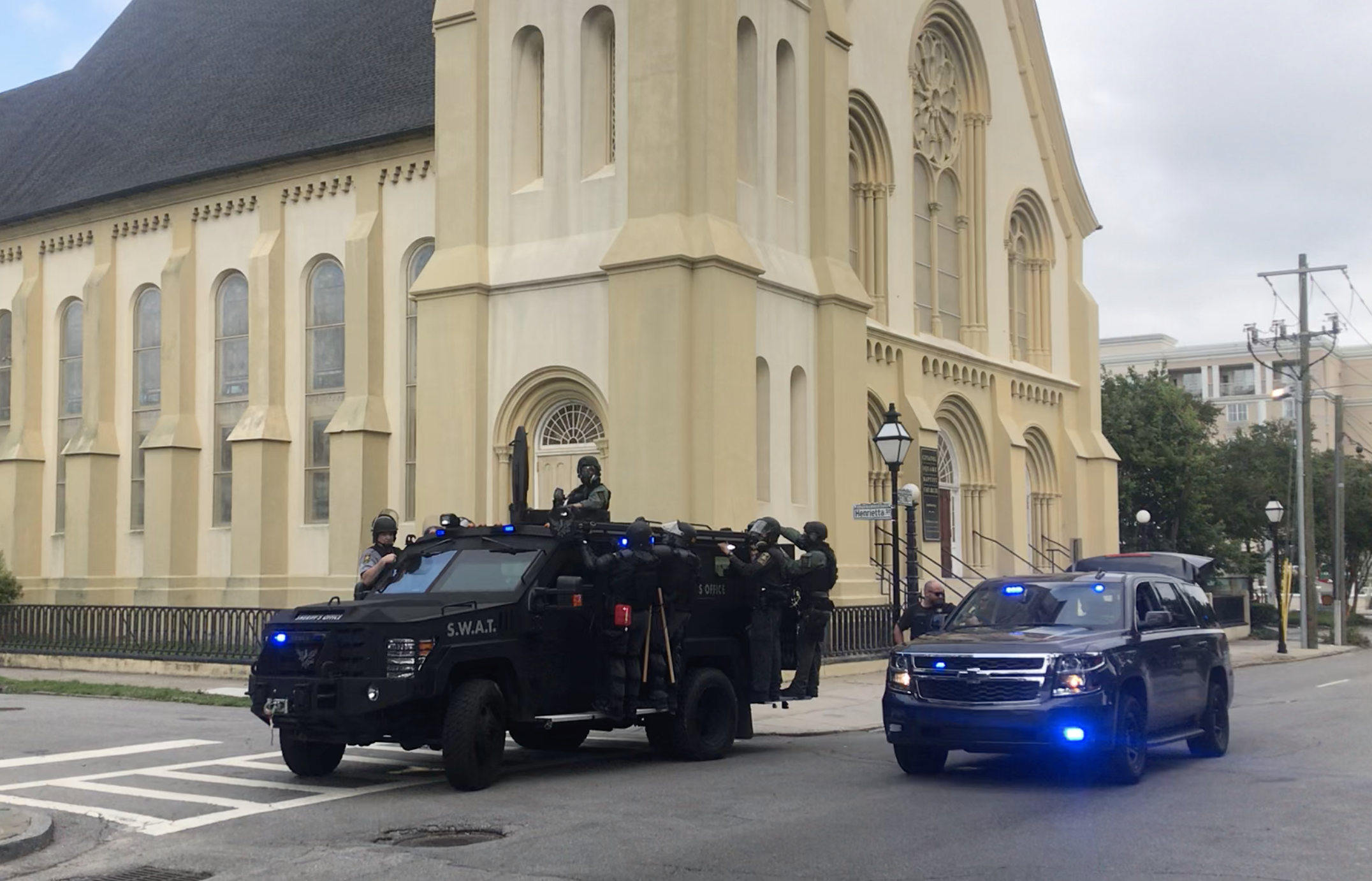 SWAT and police enforce a curfew in Charleston County, South Carolina, U.S. in response to protests. They are positioned in front of the Citadel Square Baptist Church.